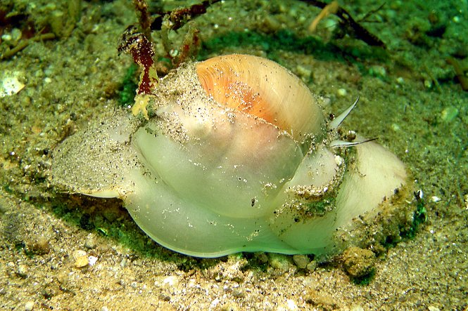 crop of file in file name